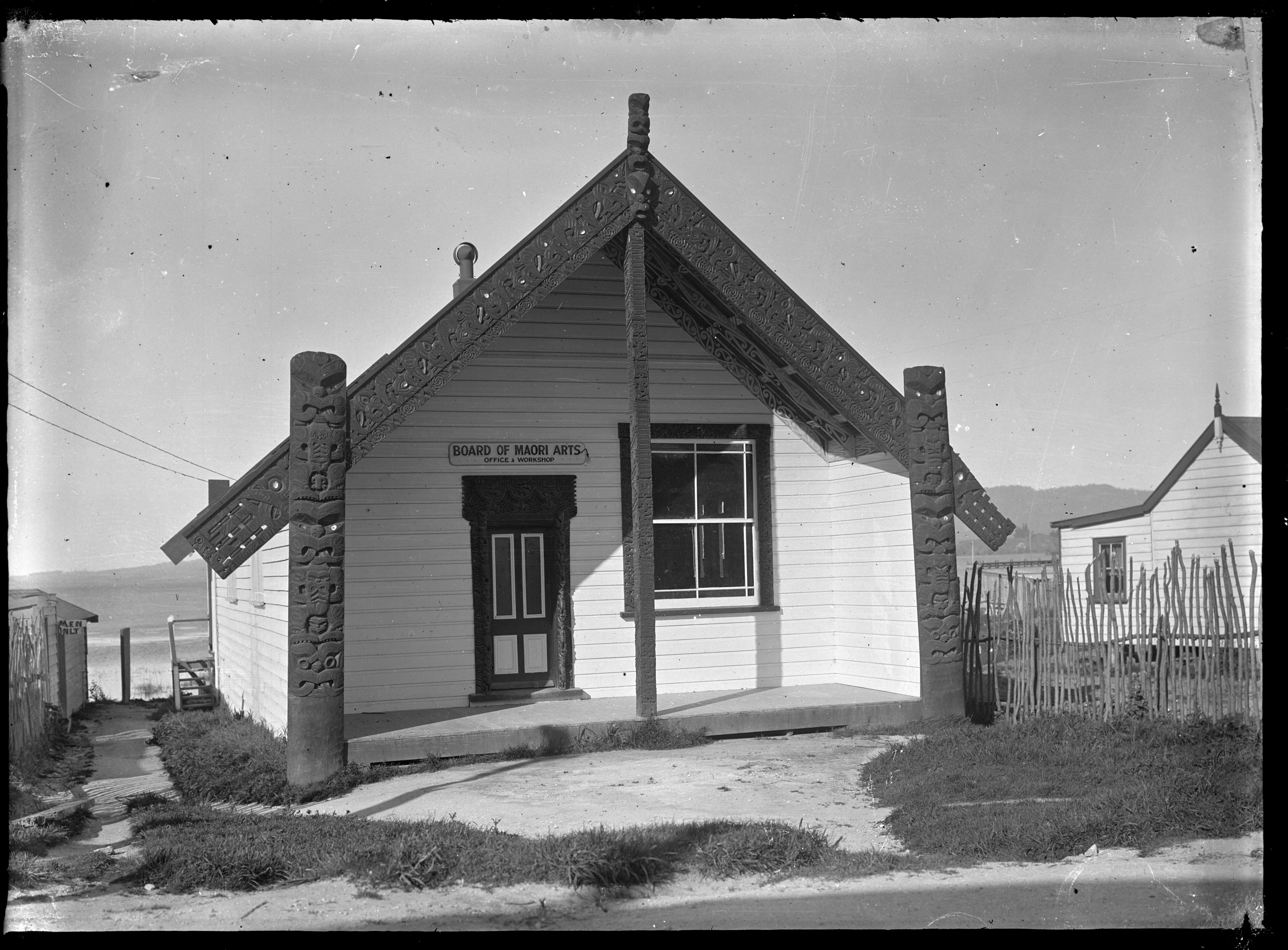 Te Aomarama, meeting house in Ohinemutu, used as an office by the Board of Maori Arts for the Rotorua Carving School. This image shows the exterior of the meeting house with the sign above the door "Board of Maori Arts. Office & workshop". Photographed by Albert Percy Godber circa 1930.